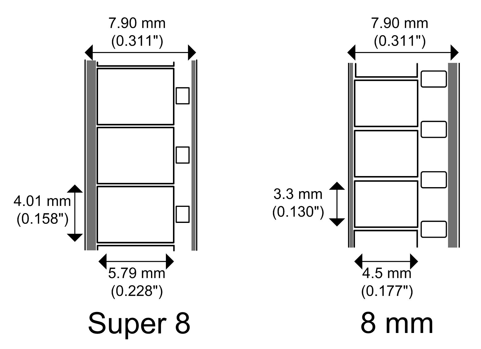 Super 8 and 8 mm film formats side by side. Magnetic stripes are indicated in gray; the wide stripe is the actual sound track, the narrow stripe is a "balance" stripe, enabling smooth movement and rolling-up of the film.